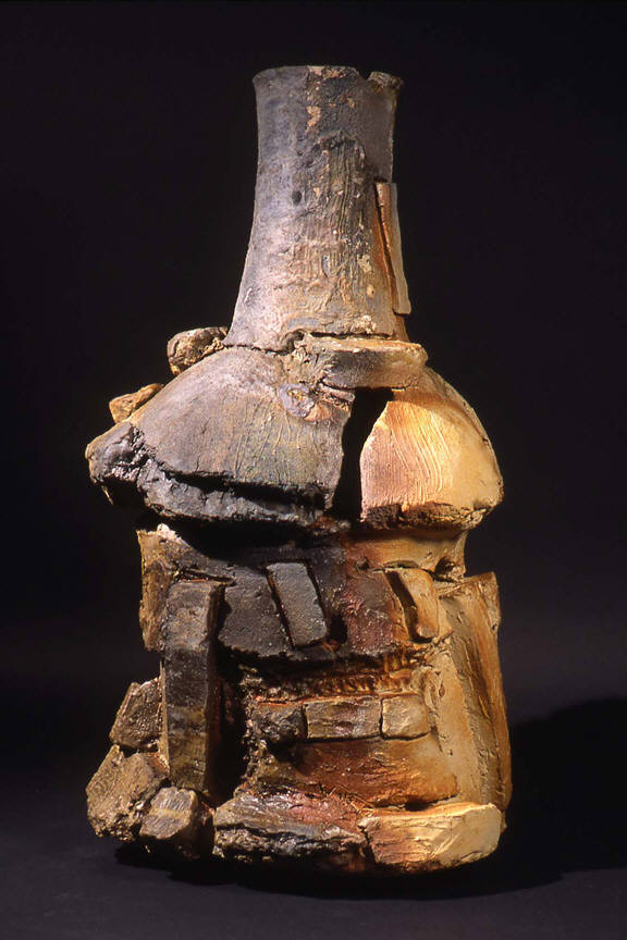 Peter Voulkos - Siguirilla, 1999